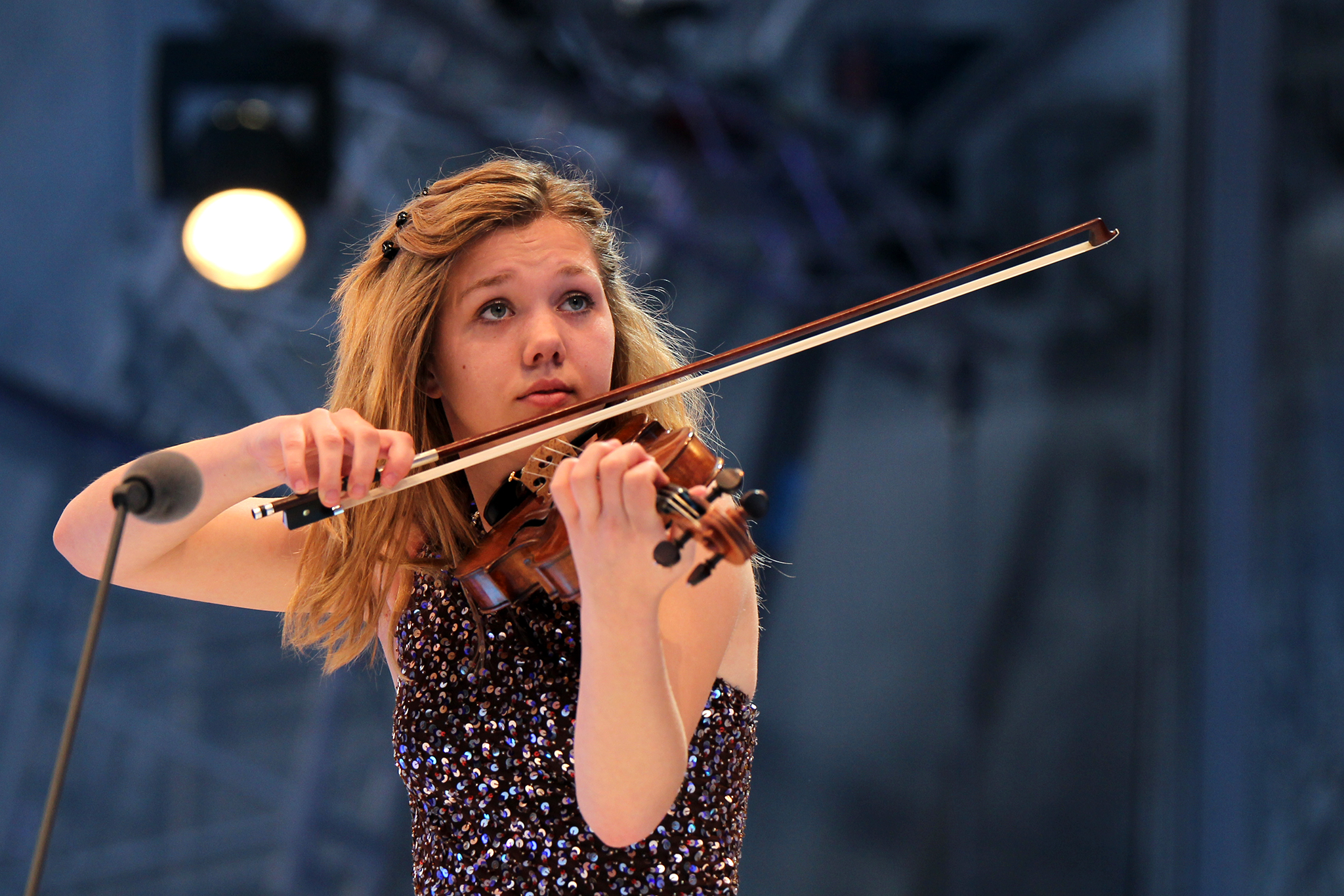 Judith Stapf at final rehearsal for Eurovision Young Musicians 2014